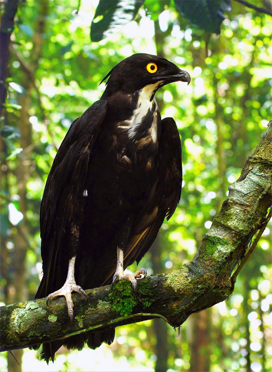 Bat Hawk (Macheiramphus alcinus), Kinabatangan River, Malaysia.